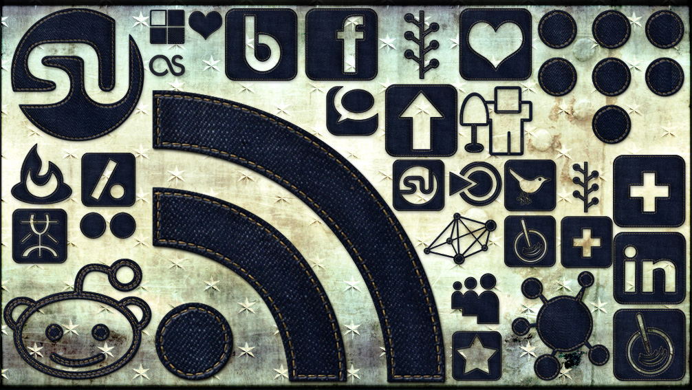 108 high resolution (600 * 600px) dark denim social media icons in png format.